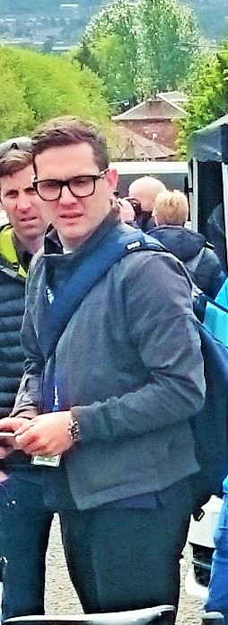 James McCallum, at Round 4 of the Pearl Izumi Tour Series in Motherwell, on 26 May 2015